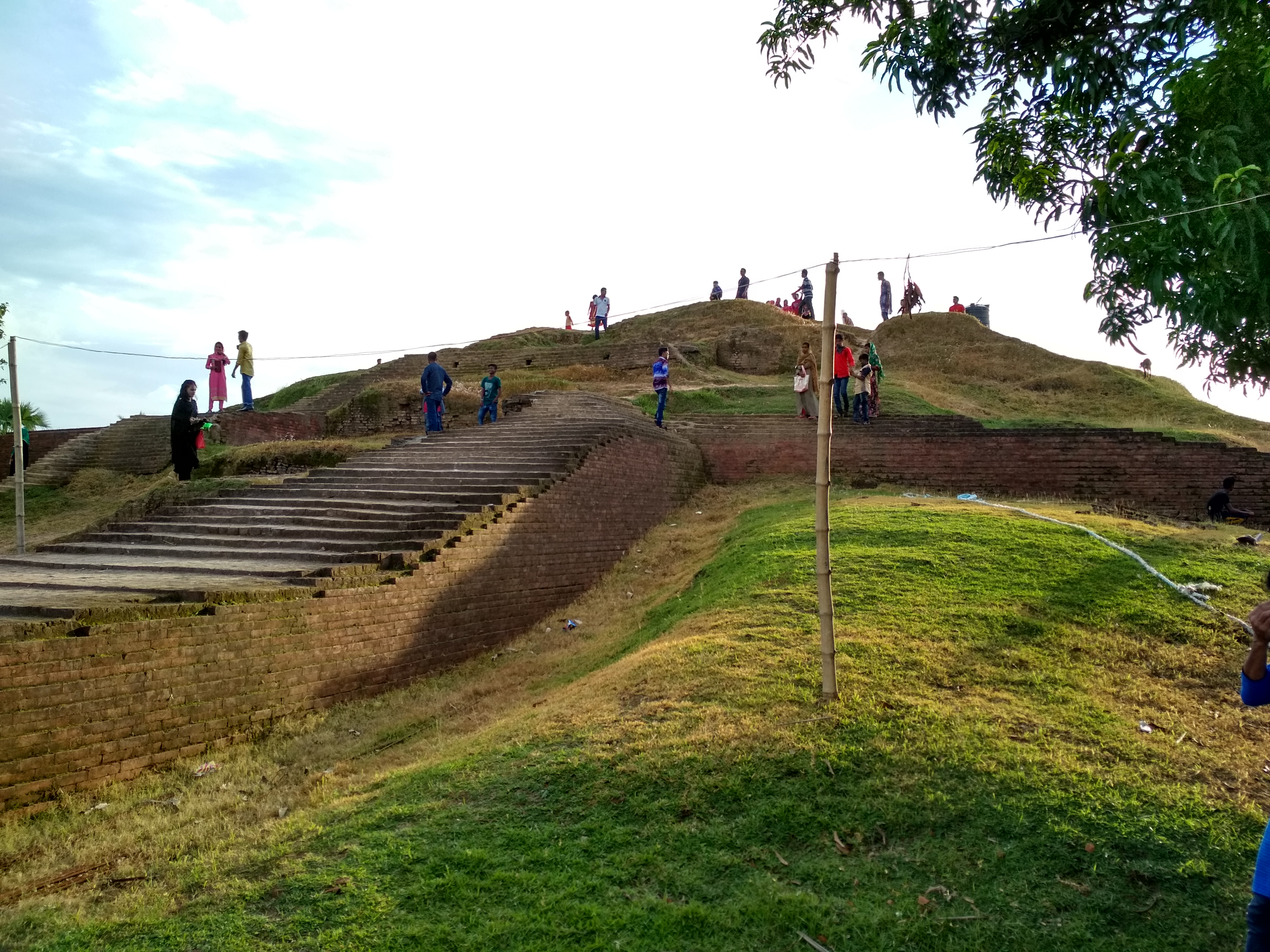 "Borot Bhayna" (also known as "Boroter Deul")